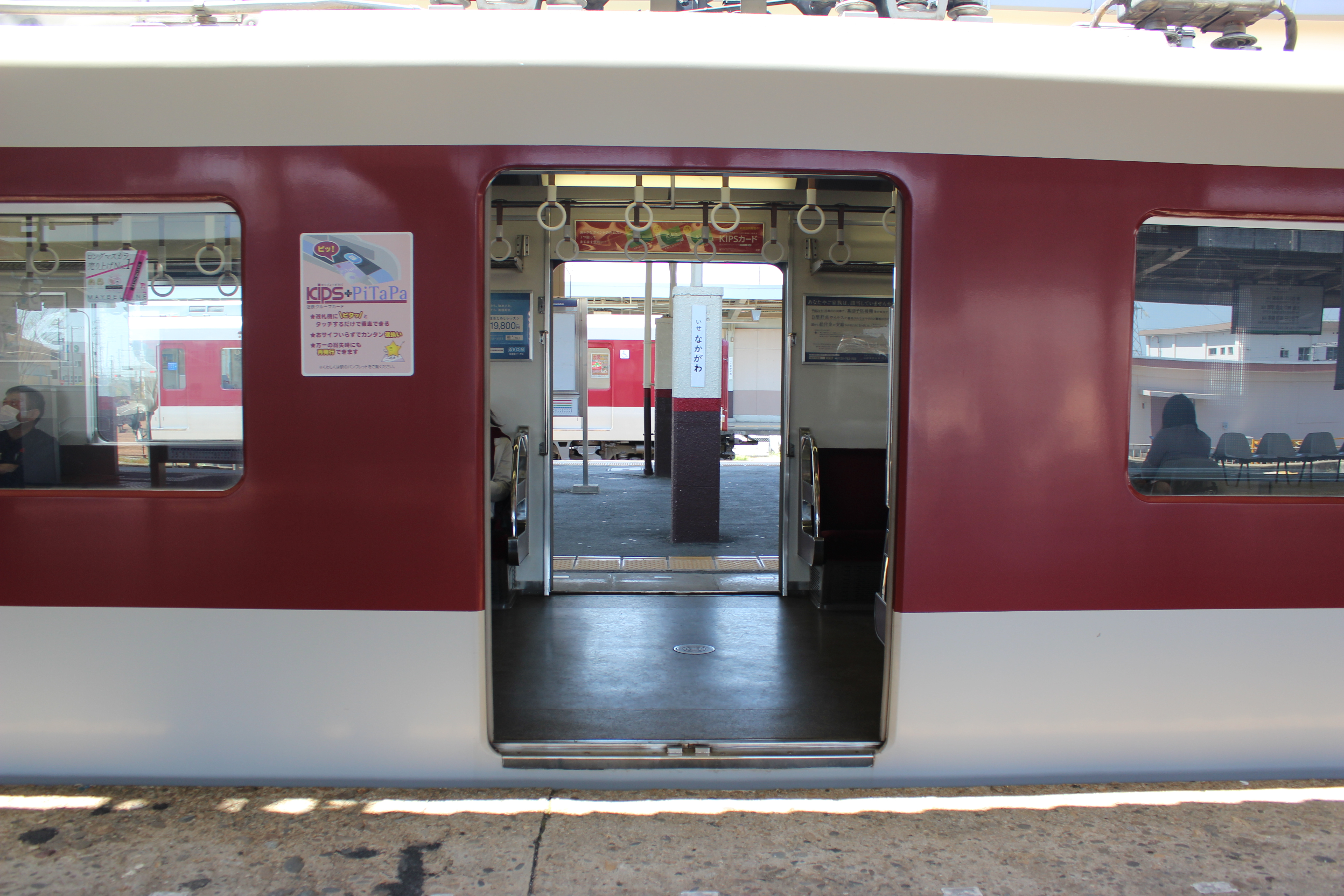 Passengers at Ise-Nakagawa Station can walk through the train to migrate between platforms